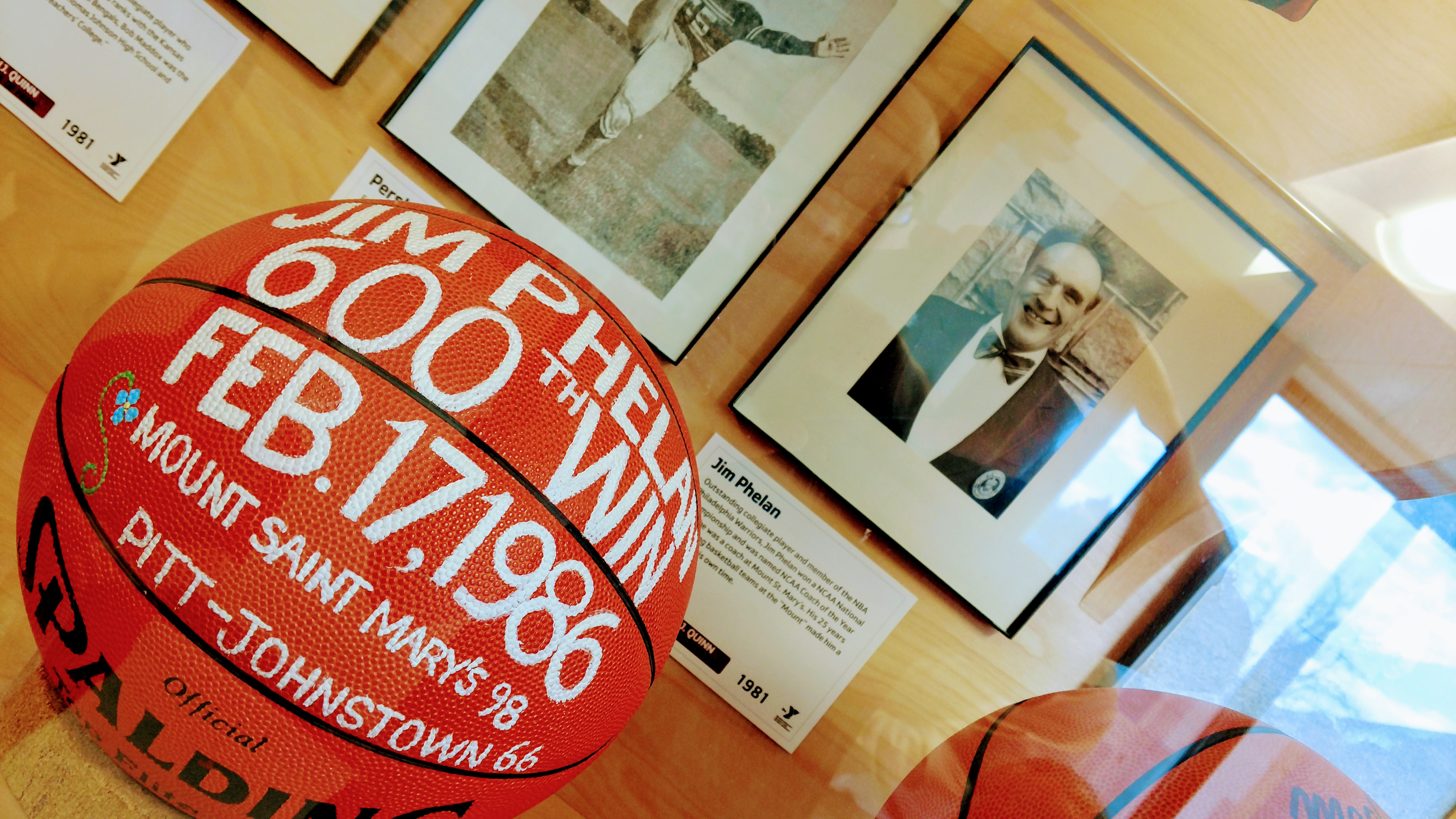 Jim Phelan's 600th career win ball from Feb. 17, 1986, on display at the YMCA of Frederick County, Frederick. MD